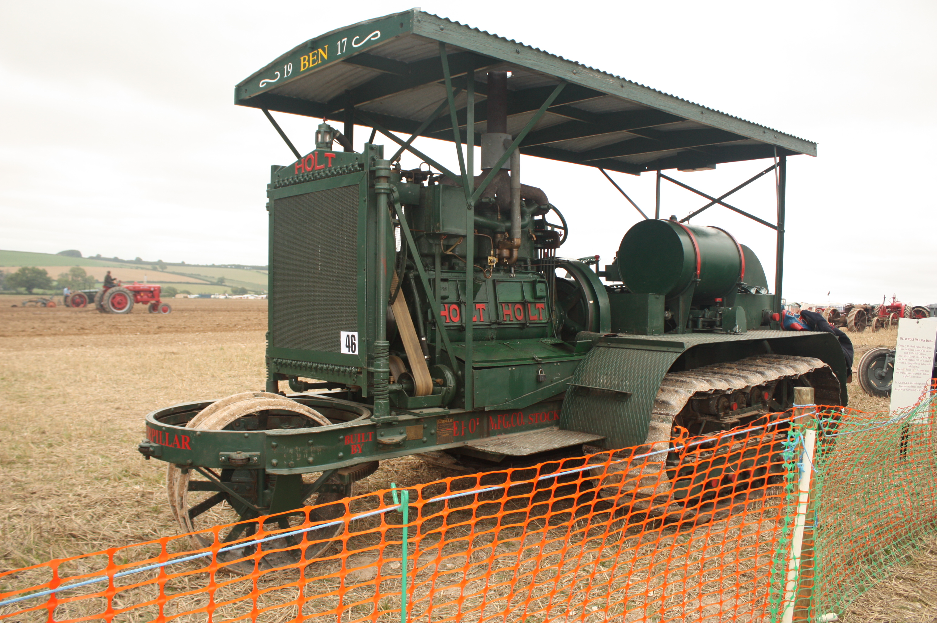 1917–1918 Holt 75 tractor, serial number 3580, at the Great Dorset Steam Fair, 2008.